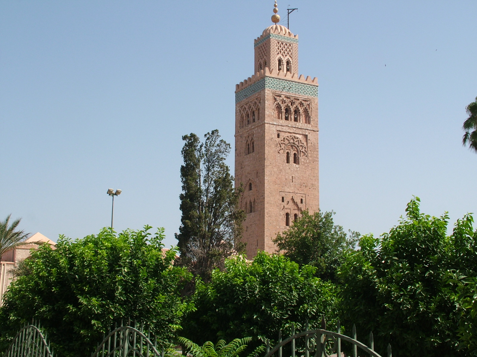 Koutoubia Mosque, Marrakech, Morocco